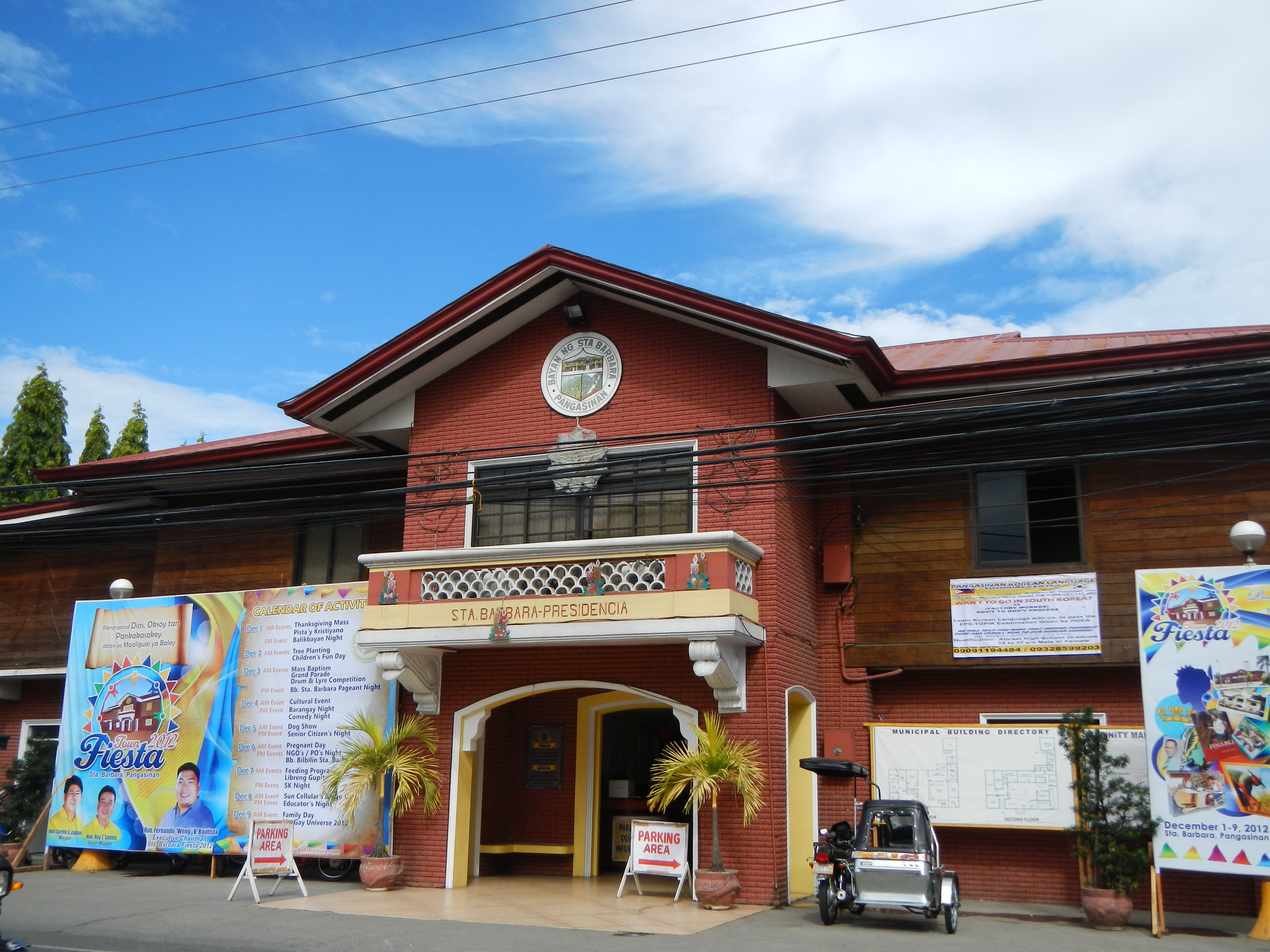 List of barangays in Pangasinan, Barangays of Pangasinan, Barangays Maningding, Ventinilla (Ventinilla West), Poblacion Sur and Poblacion Norte, and Tuliao beside Malanay, Gueguesangen, Santa Barbara, Pangasinan, Pangasinan Province beside and bounded by Barangays Bued, San Miguel, Gabon, Quesban, Poblacion East, West, Calasiao, Pangasinan, Pangasinan Province along MacArthur Highway (Santa Barbara, Pangasinan section) of MacArthur Highway or Manila North Road) surrounded by the Agno Valley of Agno River I hereby Certify that Express permission and even personal assistance by kind Officers of the Town hall had been granted to herein editor and to photographer to cover all these buildings and Maps from MPDC for public use).